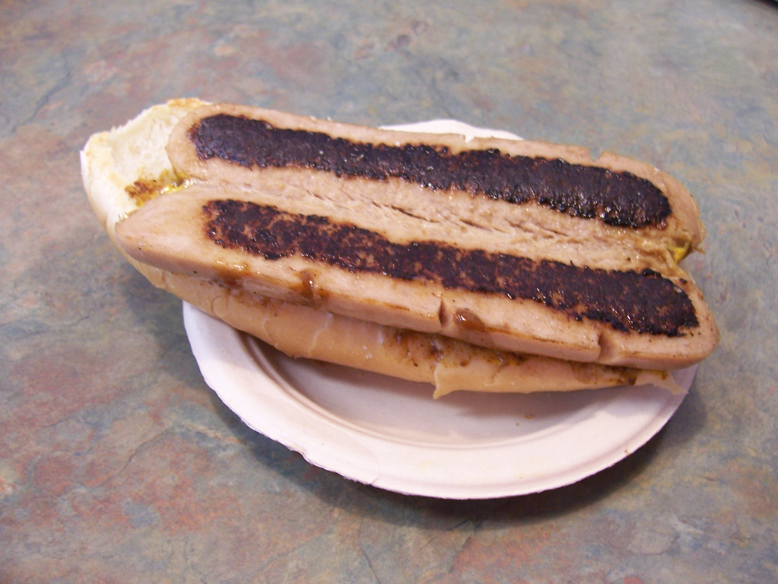 Detail of the interior of a Zweigle's 1/4 pound white hot dog served "Bill's favorite"-style (with mustard, hot sauce, and onion)